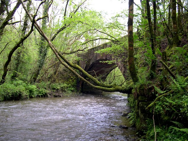 Disused railway bridge over river Gwili. Dismantled railway from Carmarthen.The railway ran to Llandyssul in 1864 and extended to Newcastle Emlyn by GWR in 1895.